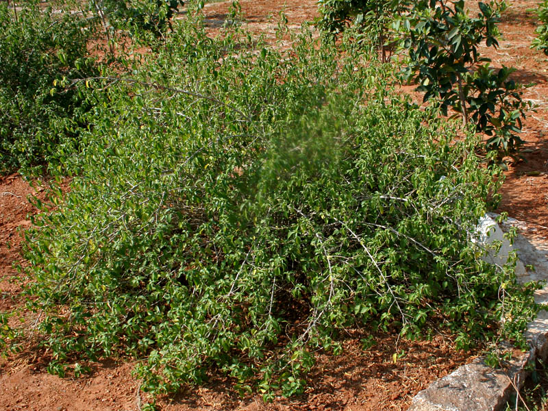 Acalypha fruticosa- chinee mara, perim-munja, siru sinni, cinni, kittik-kilanku, cinnaku- in Herbal Garden, in Rangareddy district of Andhra Pradesh, India.